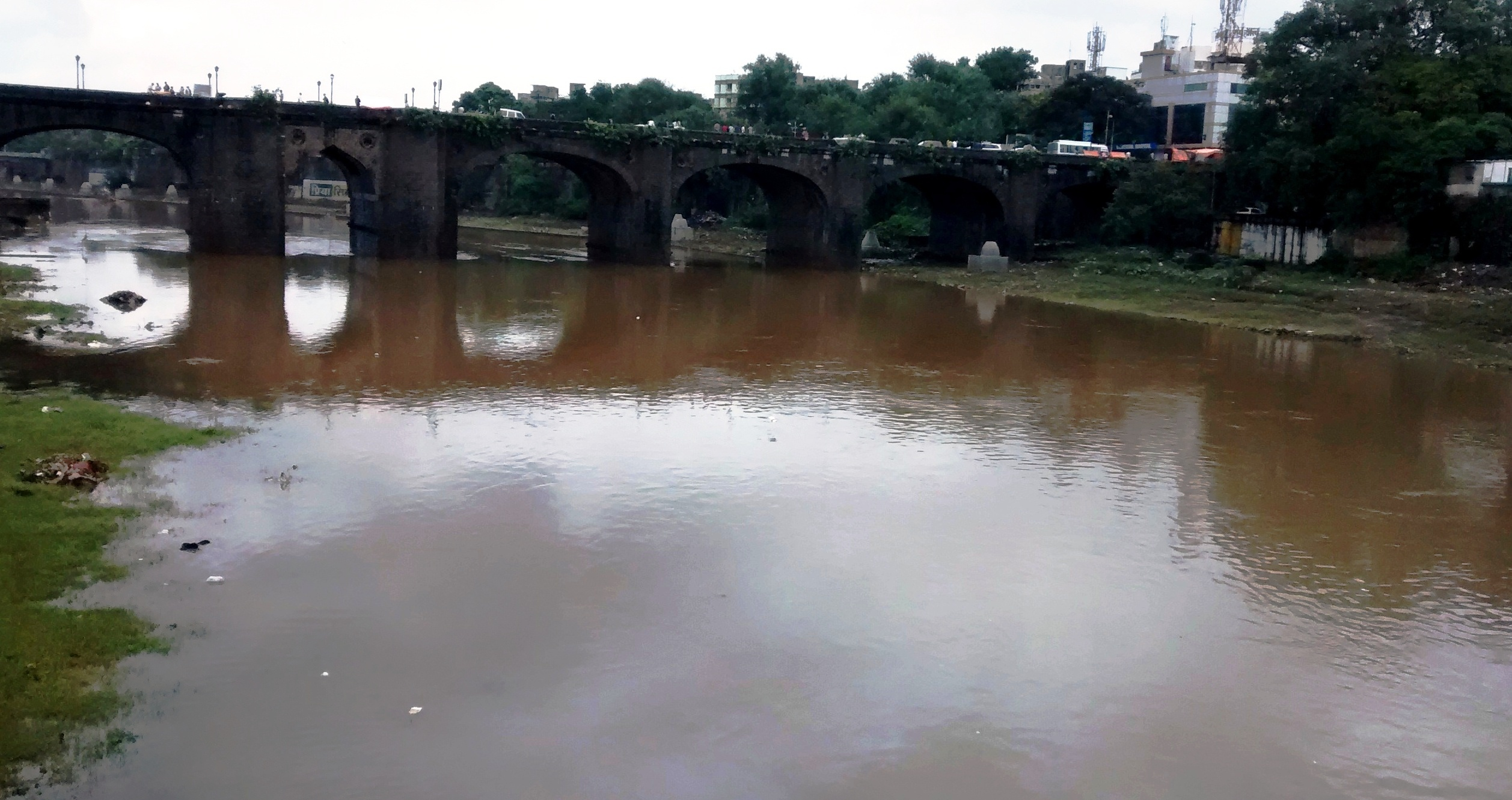 Mutha River near Pune Municipal Corporation